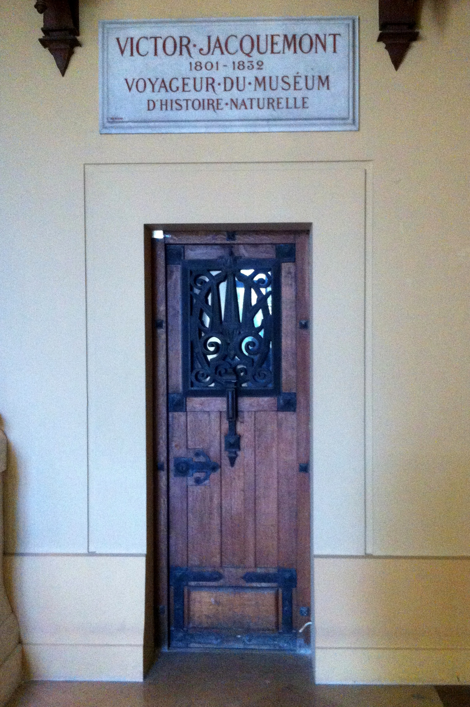 Crypt of Victor Vincelas Jacquemont (1801-1832) in the Grande Galerie de l'Évolution, Muséum National d'Histoire Naturelle, Paris, France.